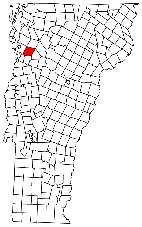 Description: Map of Vermont towns with Essex highlighted Source: Map created by Jared C. Benedict on 26 March 2004. Copyright: © Jared C. Benedict.